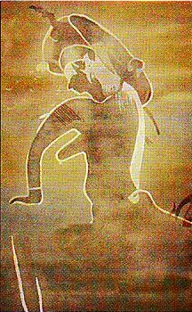 Antinea, Tassili N'Ajjer, South Algeria, 4,000-3,000 BC